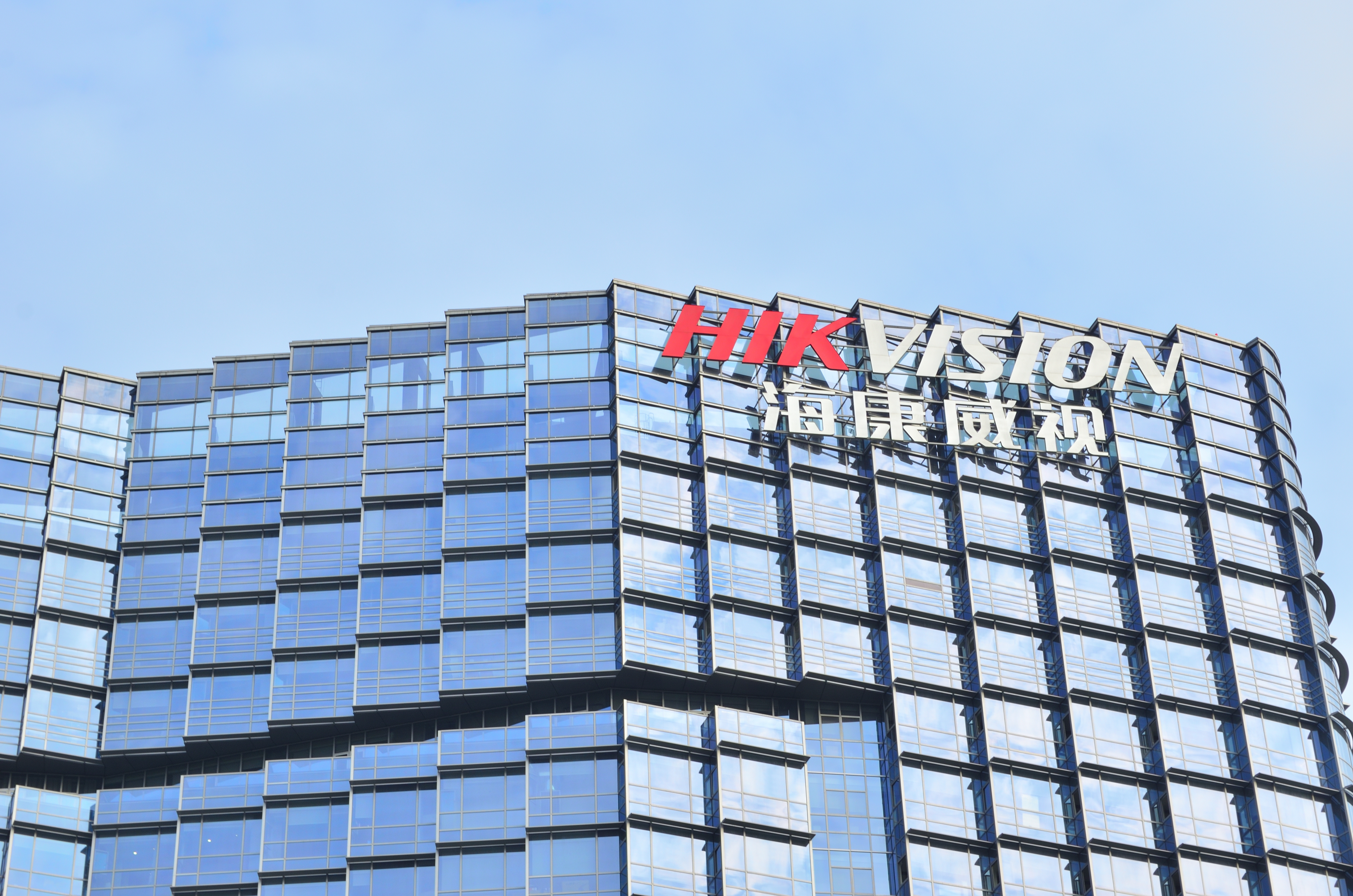 Hikvision Hangzhou office